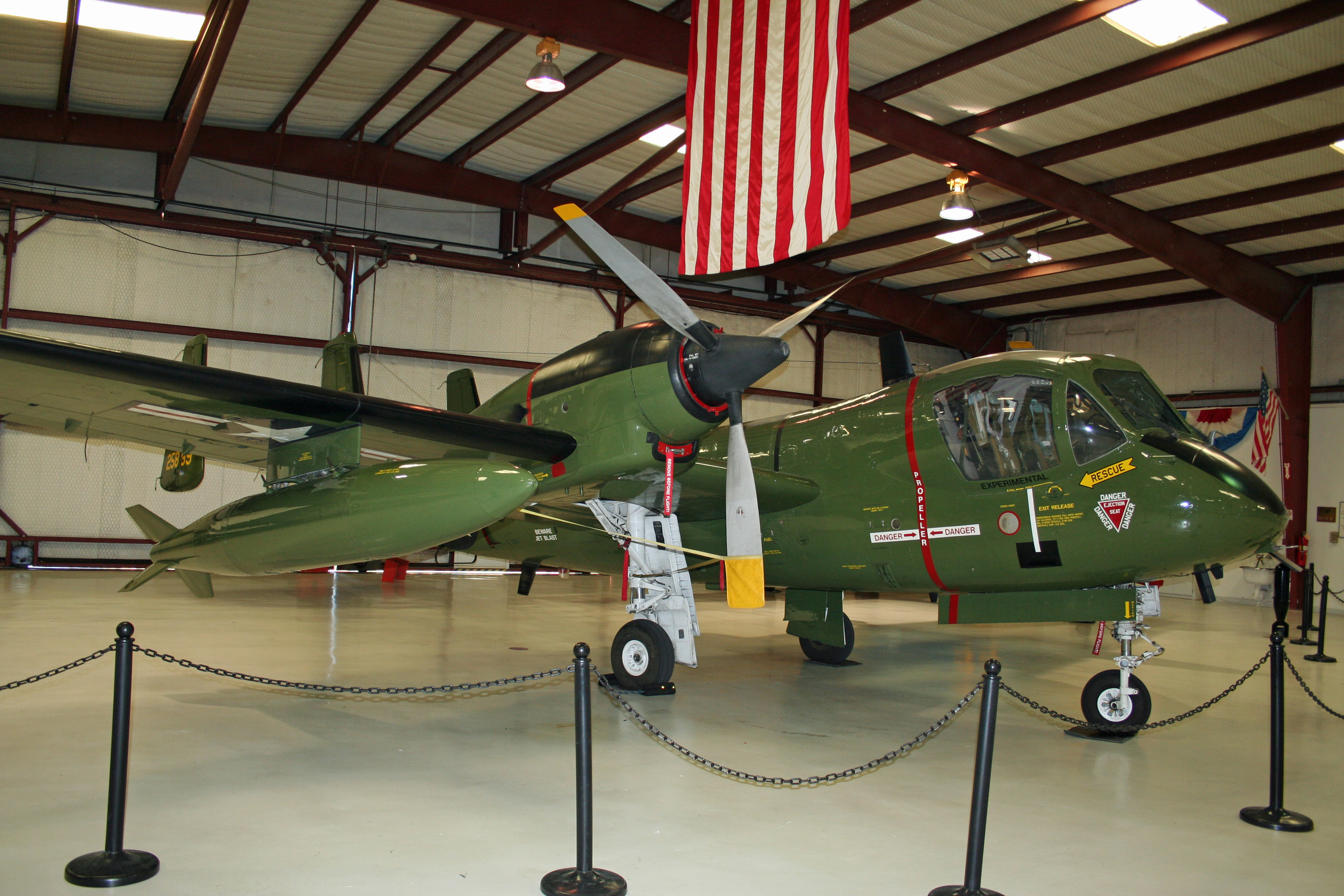 The OV-1 is an observation and light attack plane.